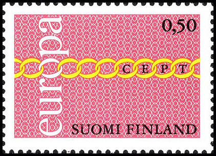 Postage stamp from Finland, 1971. Issue under the EUROPA program